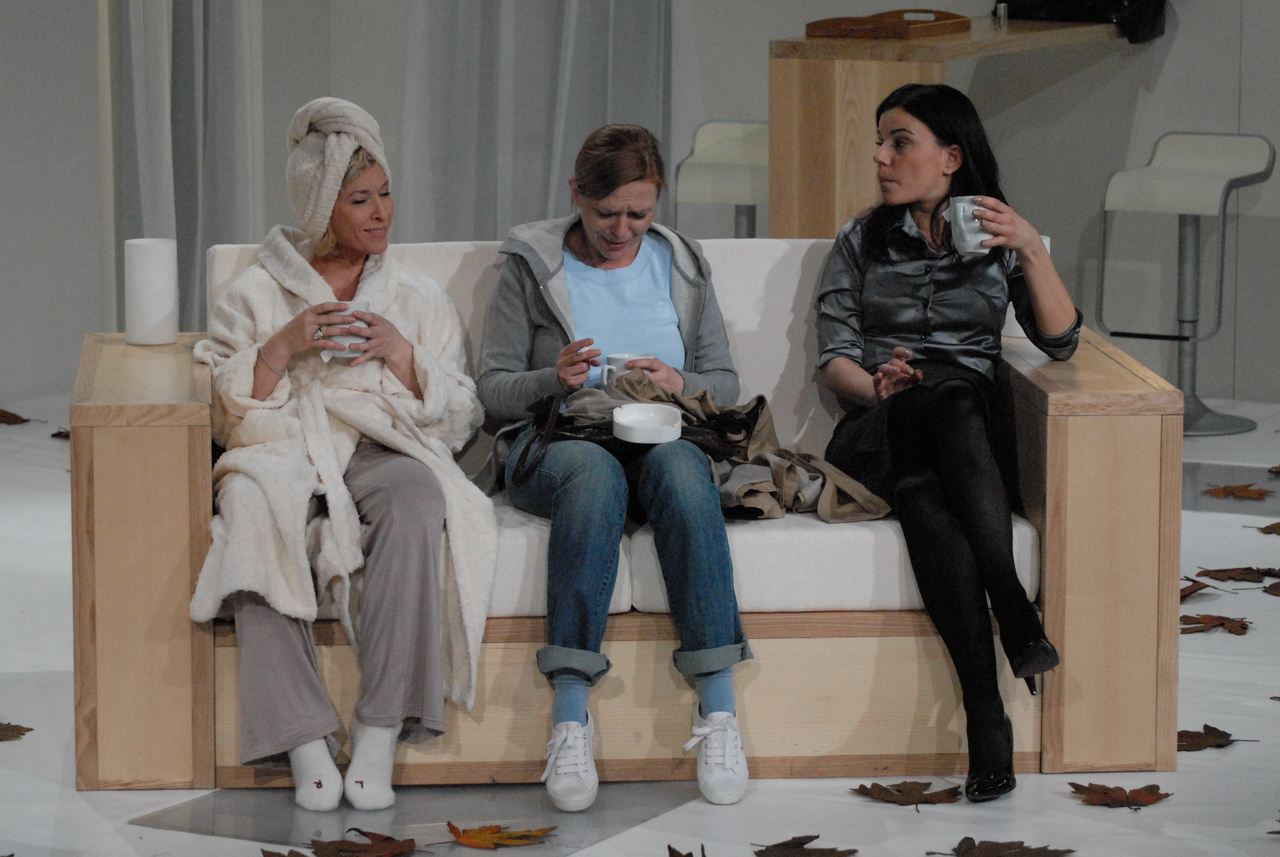 "Painkillers" written by Neda Radulović, directed by Iva Milošević; Drama of SNT, 2008/09; Ivana V. Jovanović, Draginja Voganjac, Jovana Stipić Srpski (latinica): "Painkillers" Nede Radulović, u režiji Ive Milošević; Drama SNP-a, 2008/09; Ivana V. Jovanović, Draginja Voganjac, Jovana Stipić Српски (ћирилица): "Painkillers" Неде Радуловић, у режији Иве Милошевић; Драма СНП-а, 2008/09; Ивана В. Јовановић, Драгиња Вогањац, Јована Стипић